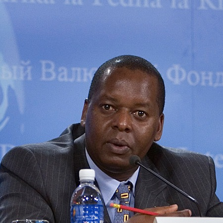 Amos Kimonya, Minister of Finance from Kenya at the 2006 IMF Annual Meetings